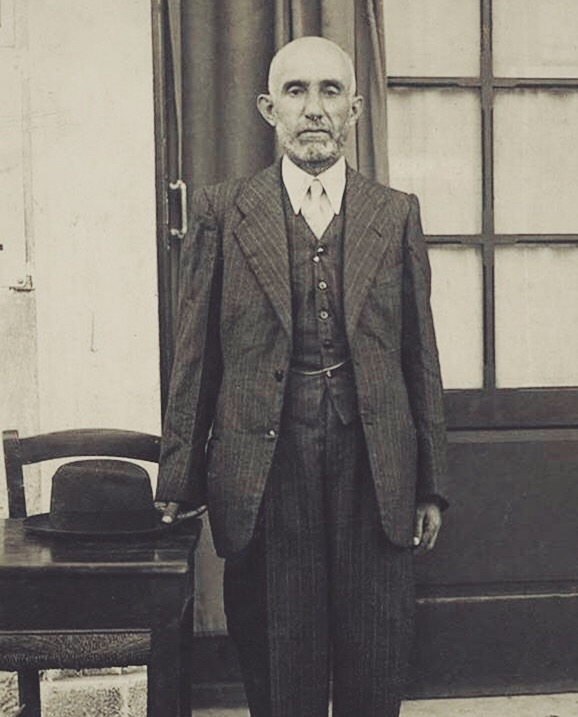 Image of Xhemal Naipi standing